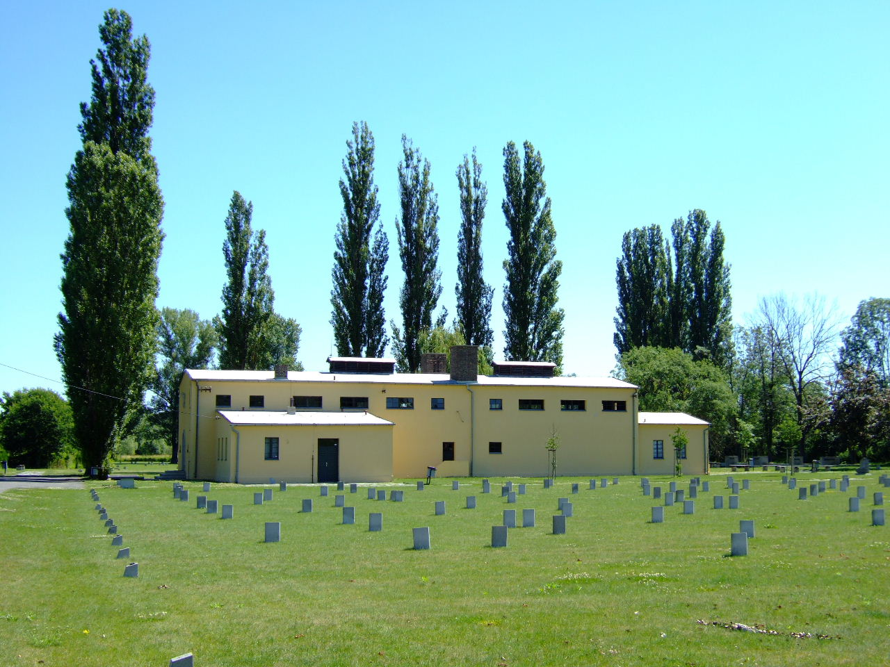 Jewish cemetery and crematorium in Terezín Aufnahme: 1. Juli 2006 Url